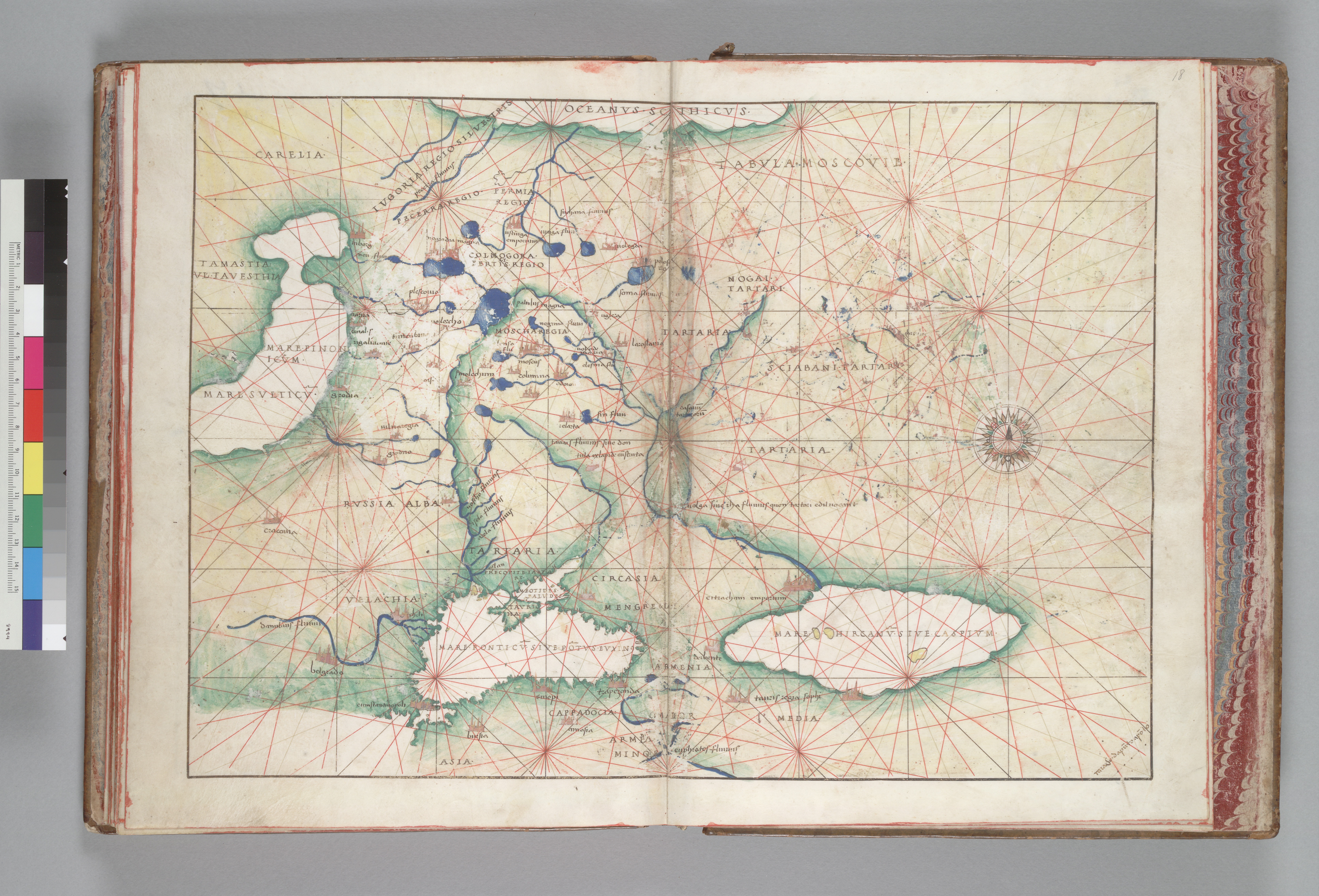 Map of Russia. HM 10. Battista Agnese, PORTOLAN ATLAS (Italy ca. 1550) Call Number: HM 10 Folio: ff. 17v-18 Description: Russia and Muscovy